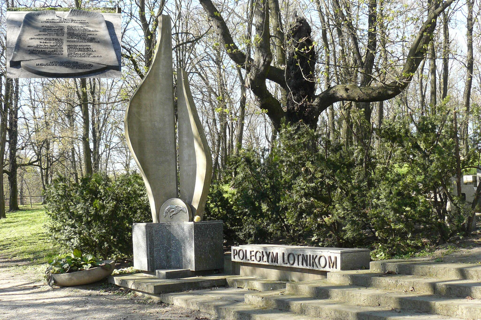 3. Poznan Air Regiment - Monument, Poznan.